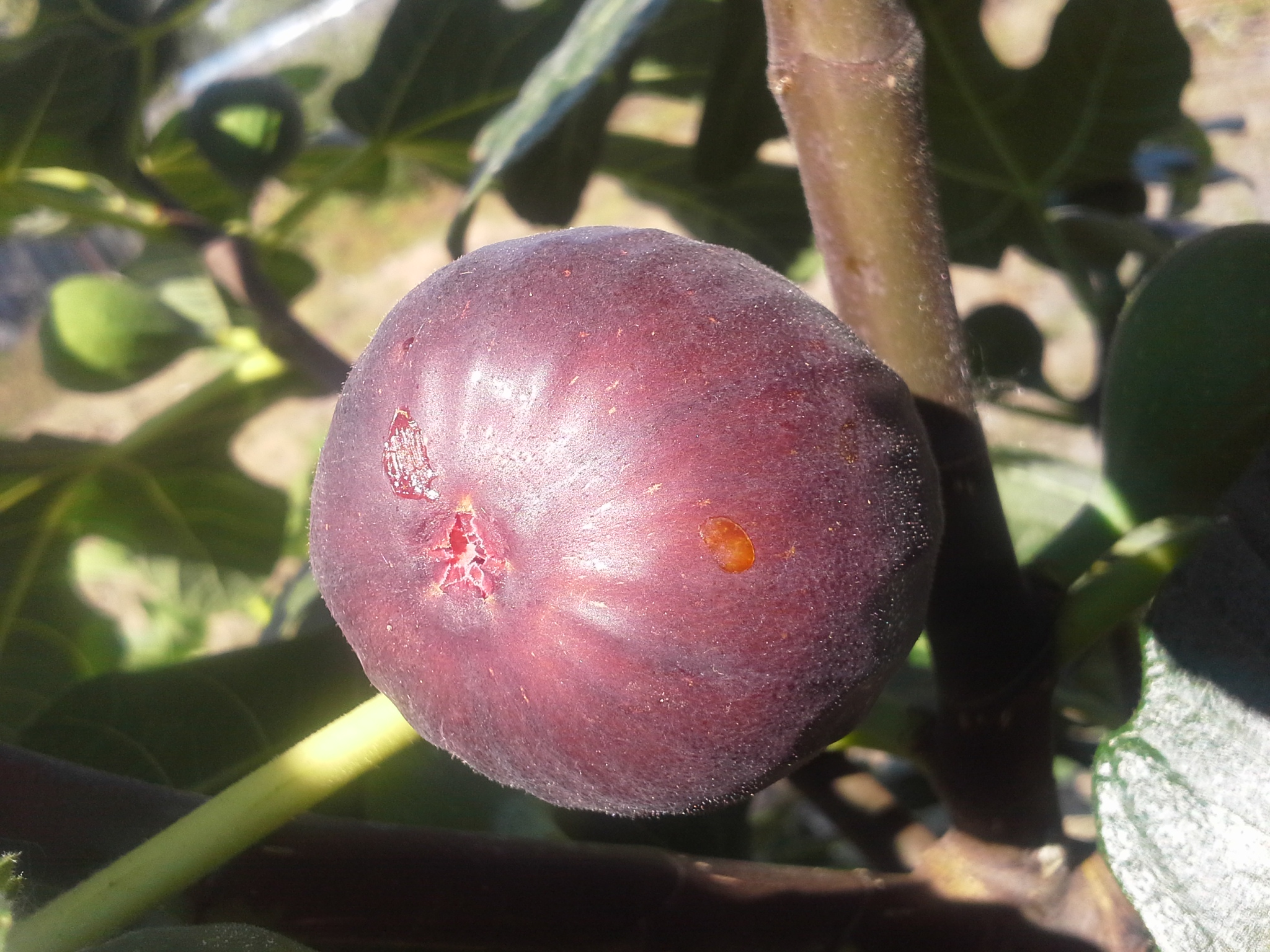 Fig of the Hardy Chicago variety on my lot; taken with my phone.